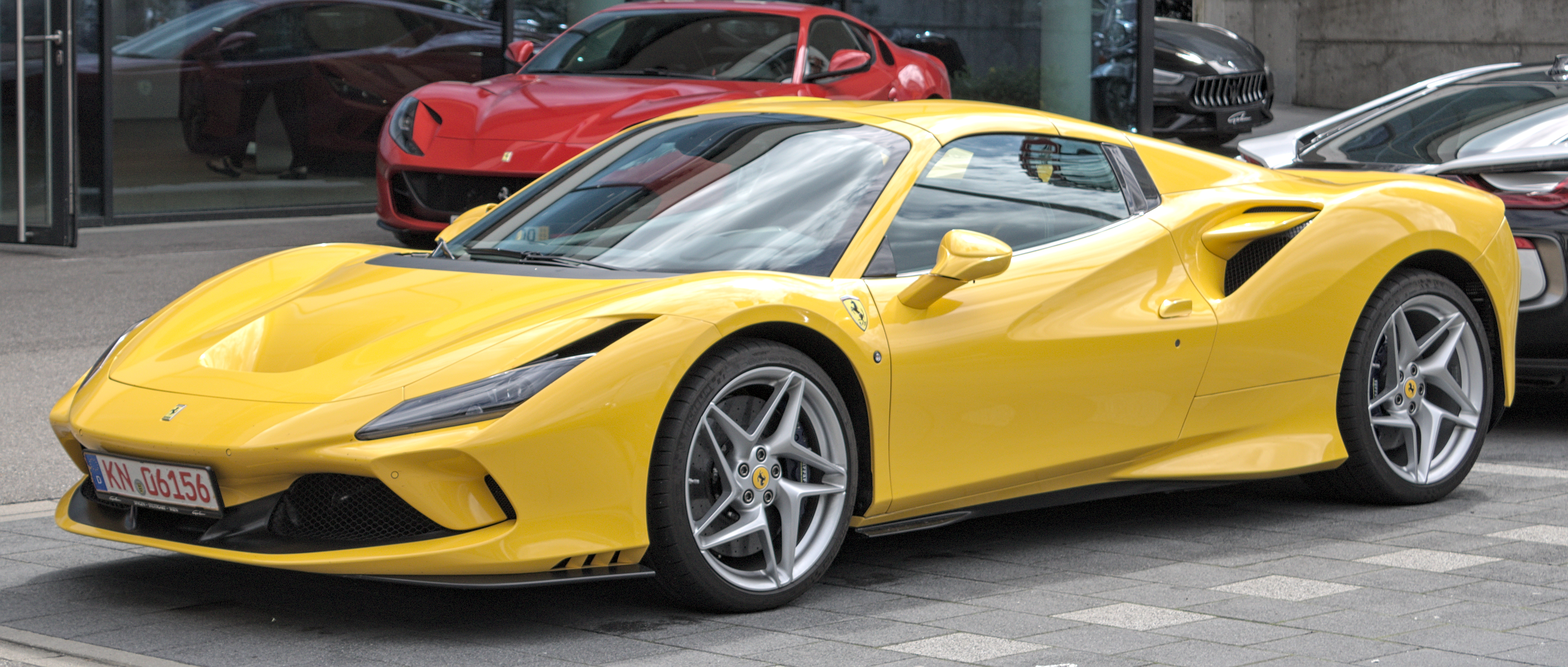 Ferrari F8 Spider in Böblingen